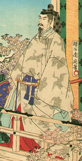 Detail of Emperor Nintoku - "Azuma Nishiki Chuya Kurabe" (Edo Embroidery Pictures, Comparison of Day and Night). Woodblock print by Toyohara Chikanobu (1838-1912) and published by Kobayashi Tetsujiro, depicting Emperor Nintoku (313 - 399 A.D) observing his people.